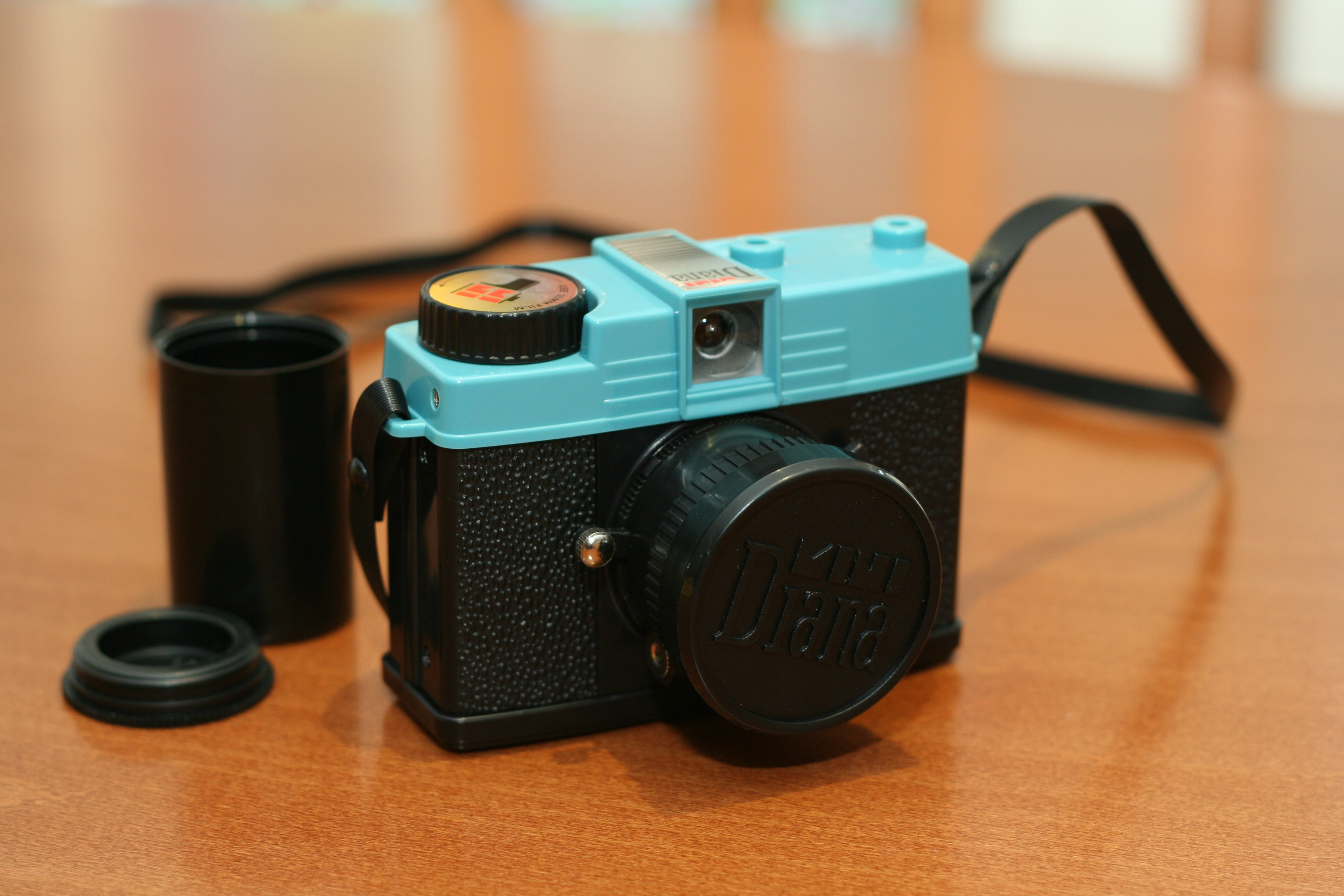 Weezie bought me this Diana Mini today. Tis awesome. Have a pack of film loaded and ready to go. Just sucks that I gotta wait for it to be developed. My landlord won't mind if I convert the second bathroom into a lab. Will he?